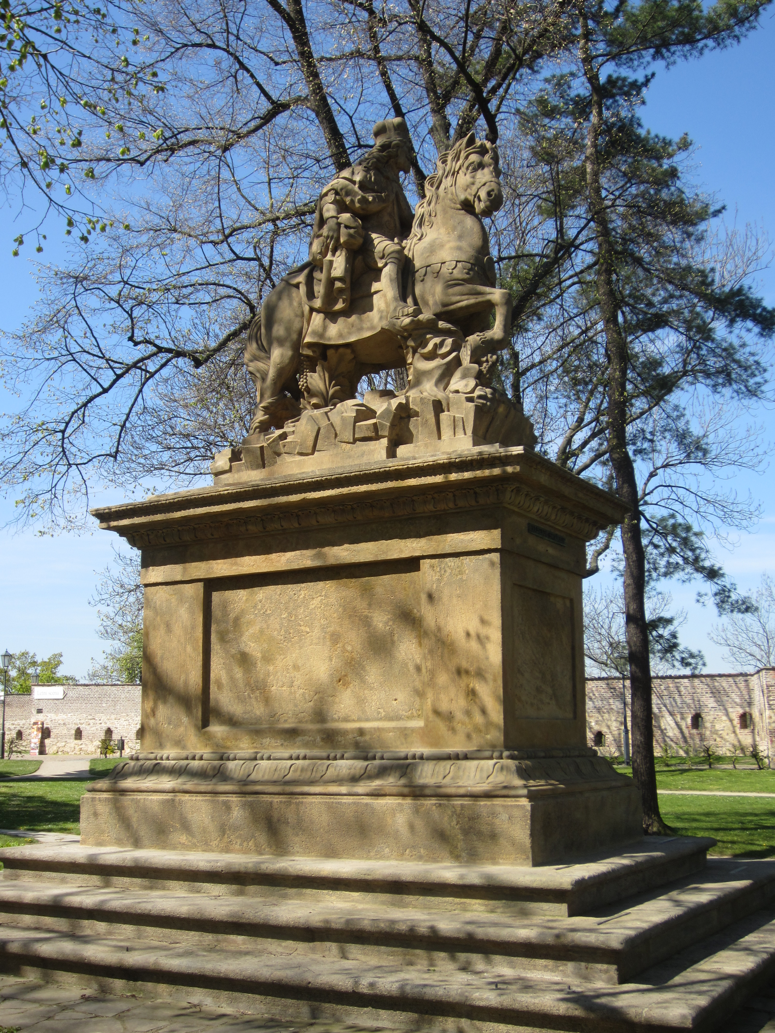 Prague, Czech Republic, April 2016